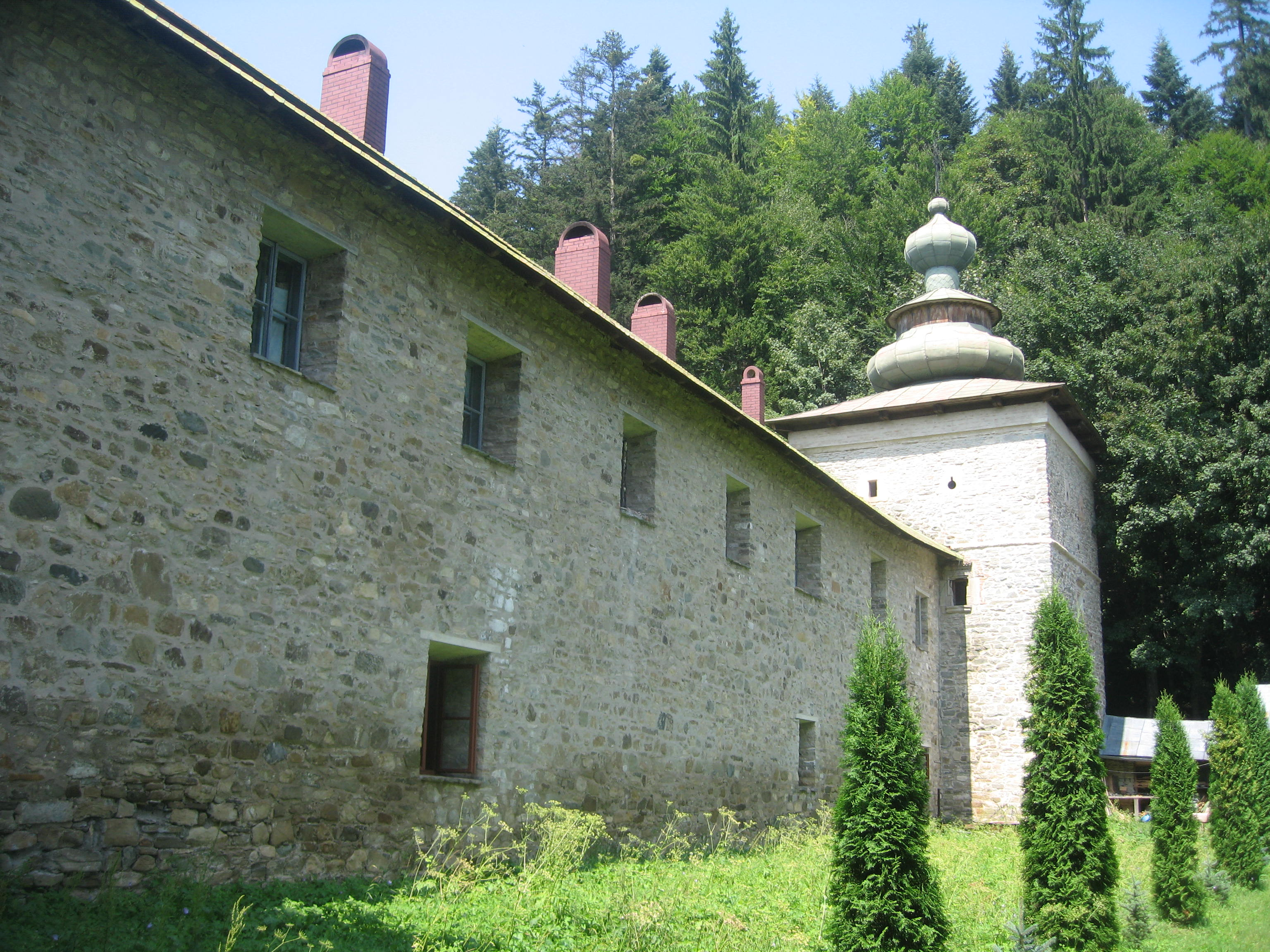 Slatina Monastery